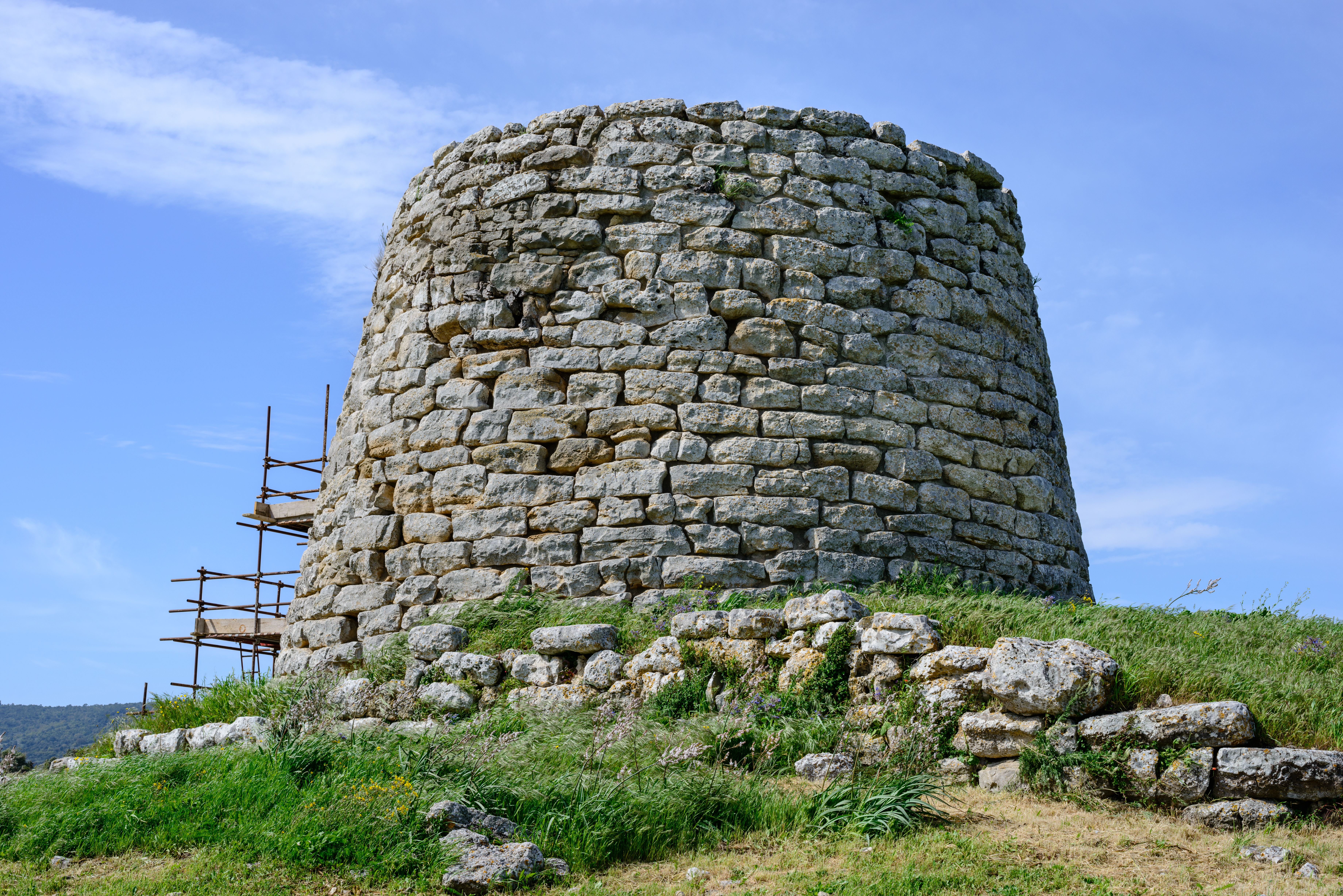 Nuraghe of Is Paras, Isili, Sardinia, Italy. The central tower of the Nuraghe is comparably well preserved and dates back to about 1500 BC.